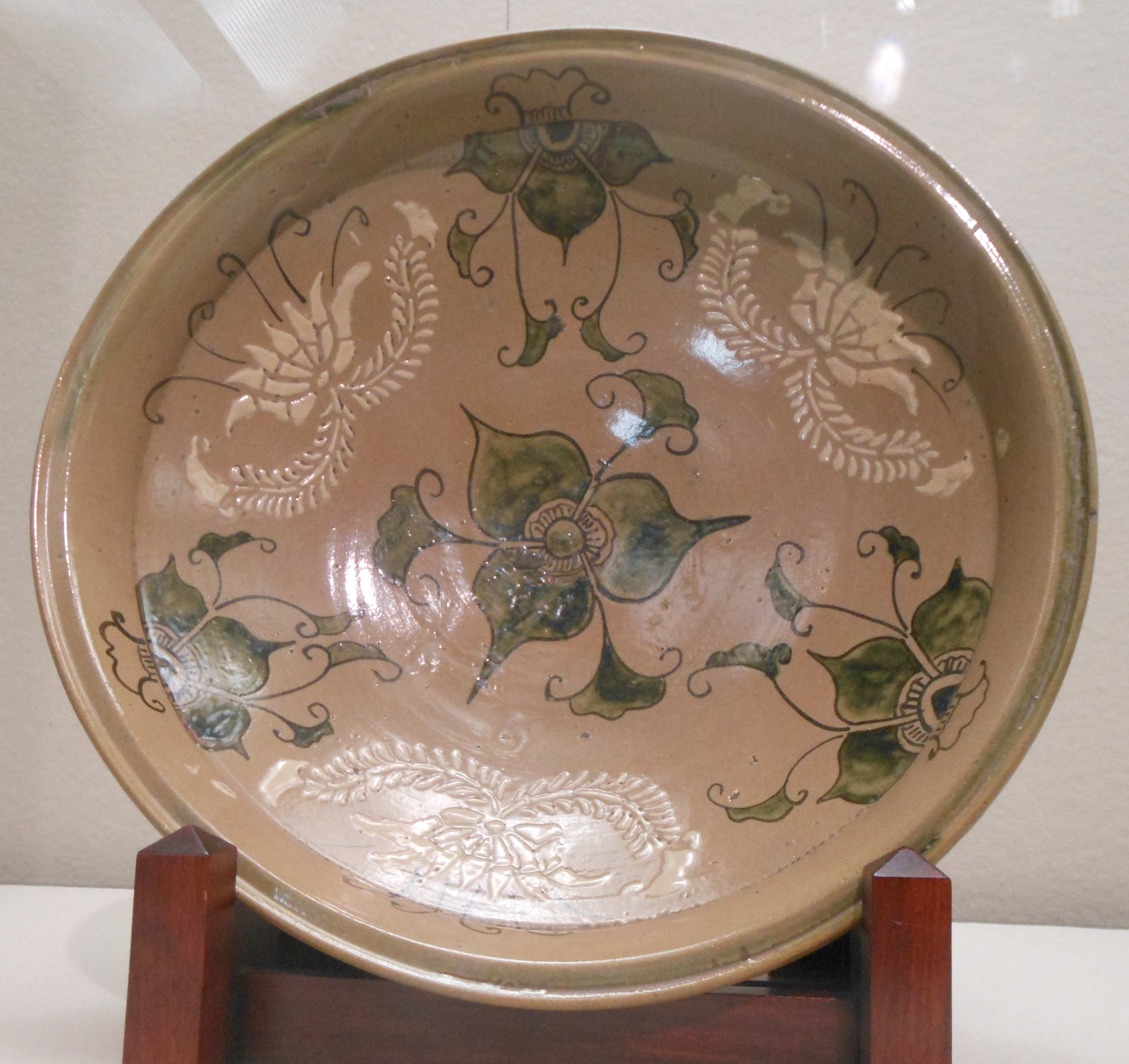 Name:Katagamizuri-Karakusamon-Ozara (Large dish with stenciled design of stylized flower copper-green glaze (Nisai type).) Karatsu ware, designated Prefectural Important Cultural Property of Saga Prefecture. Collection No.:3256-06 Era:1610-1640s Made in:Hizen Collected, displayed by:Kyushu Ceramic Museum